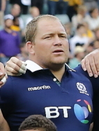 2017.06.17.15.04.39-AUSvSCO anthems-0001 The 2017 mid-year rugby union international, 17 June 2017, Australia vs Scotland at Allianz Stadium, Sydney